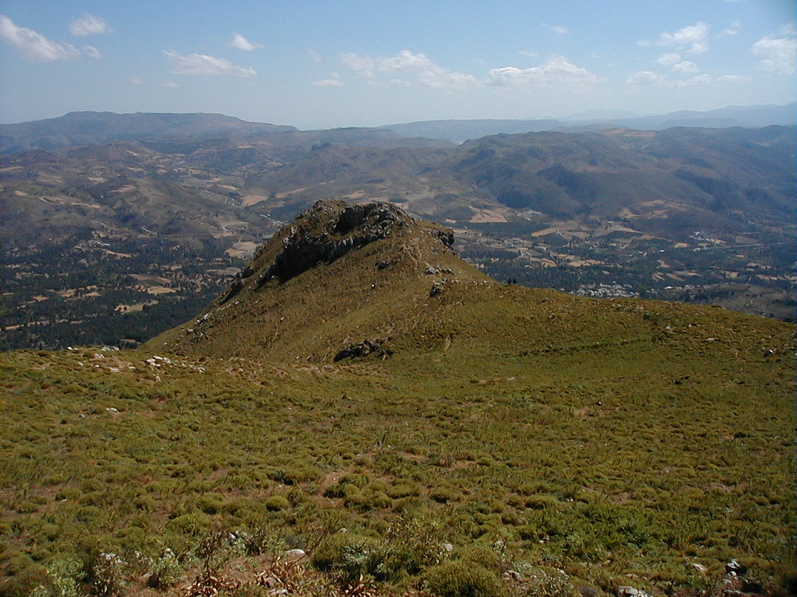 own image, summer 2000 own image, summer 2000